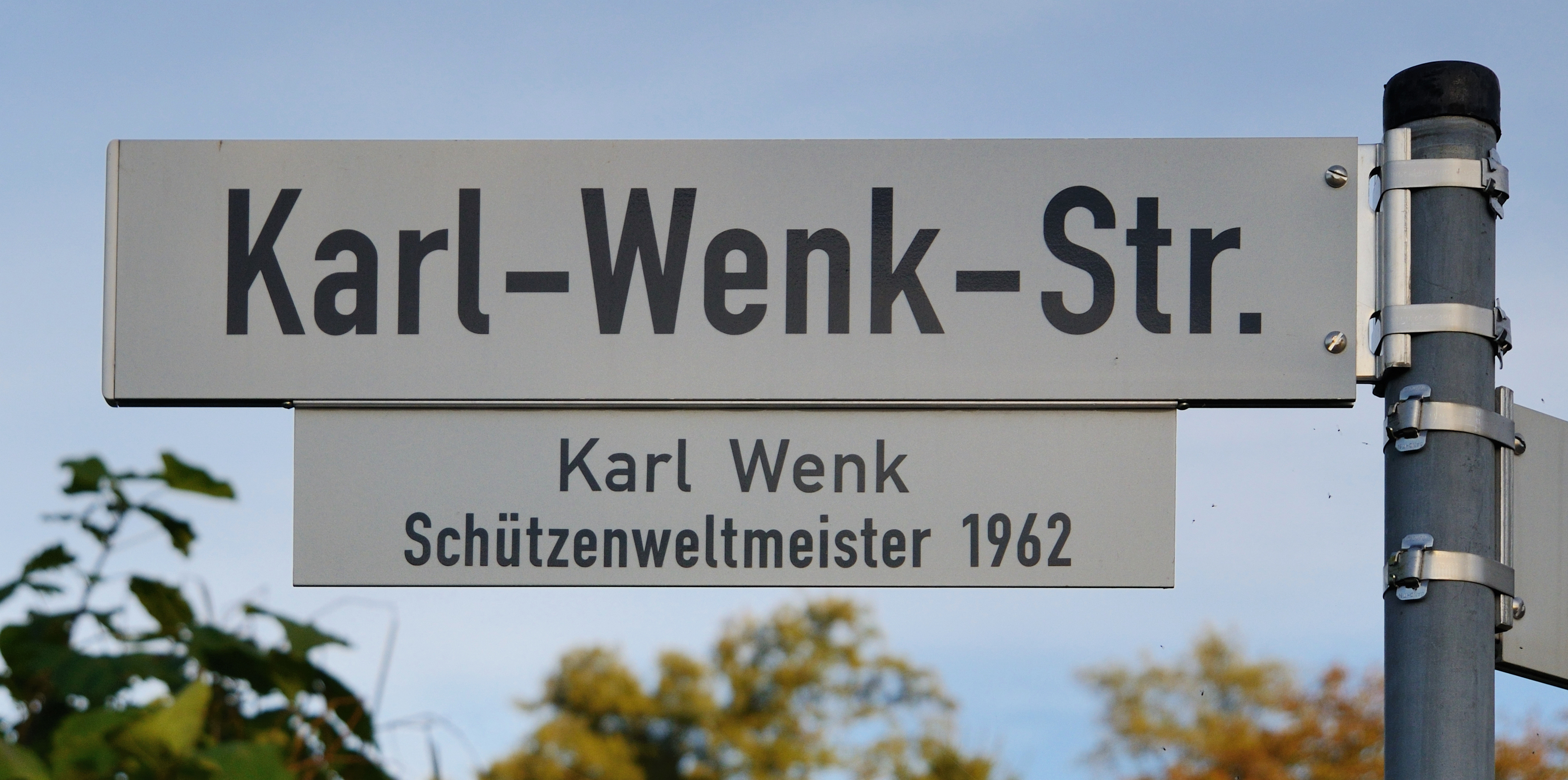 Lörrach-Brombach: street sign (Karl-Wenk-Straße)